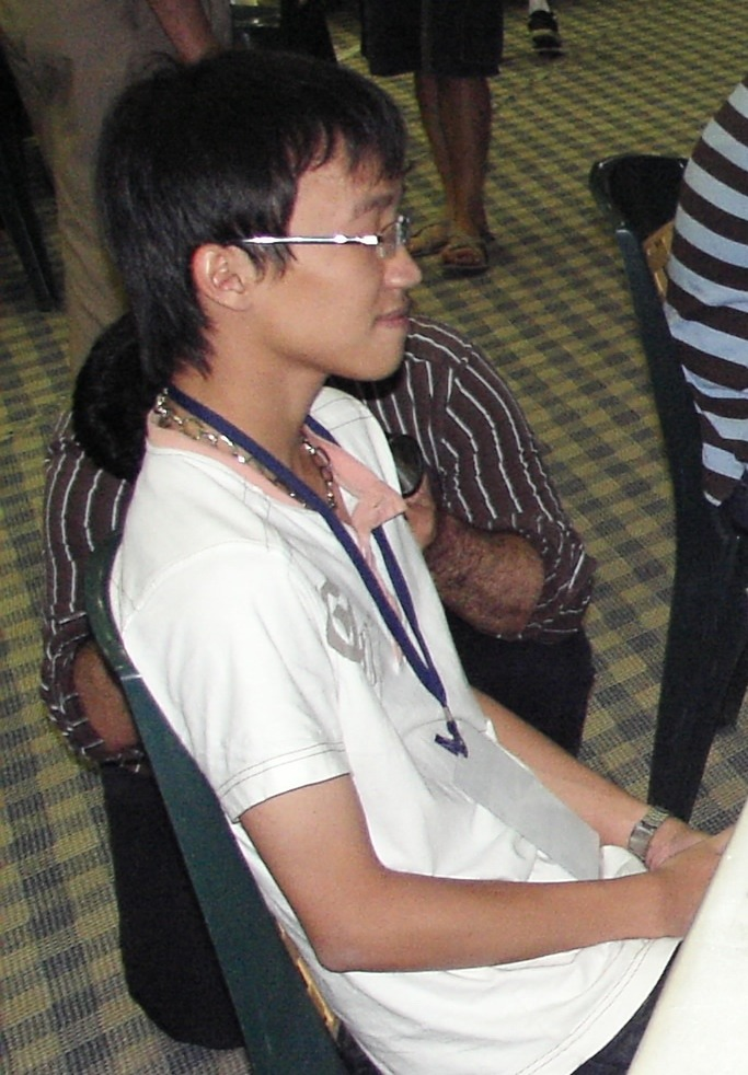 GM Nguyen Ngoc Truong Son Vietnam, World Junior Chess Championship, Gaziantep 2008